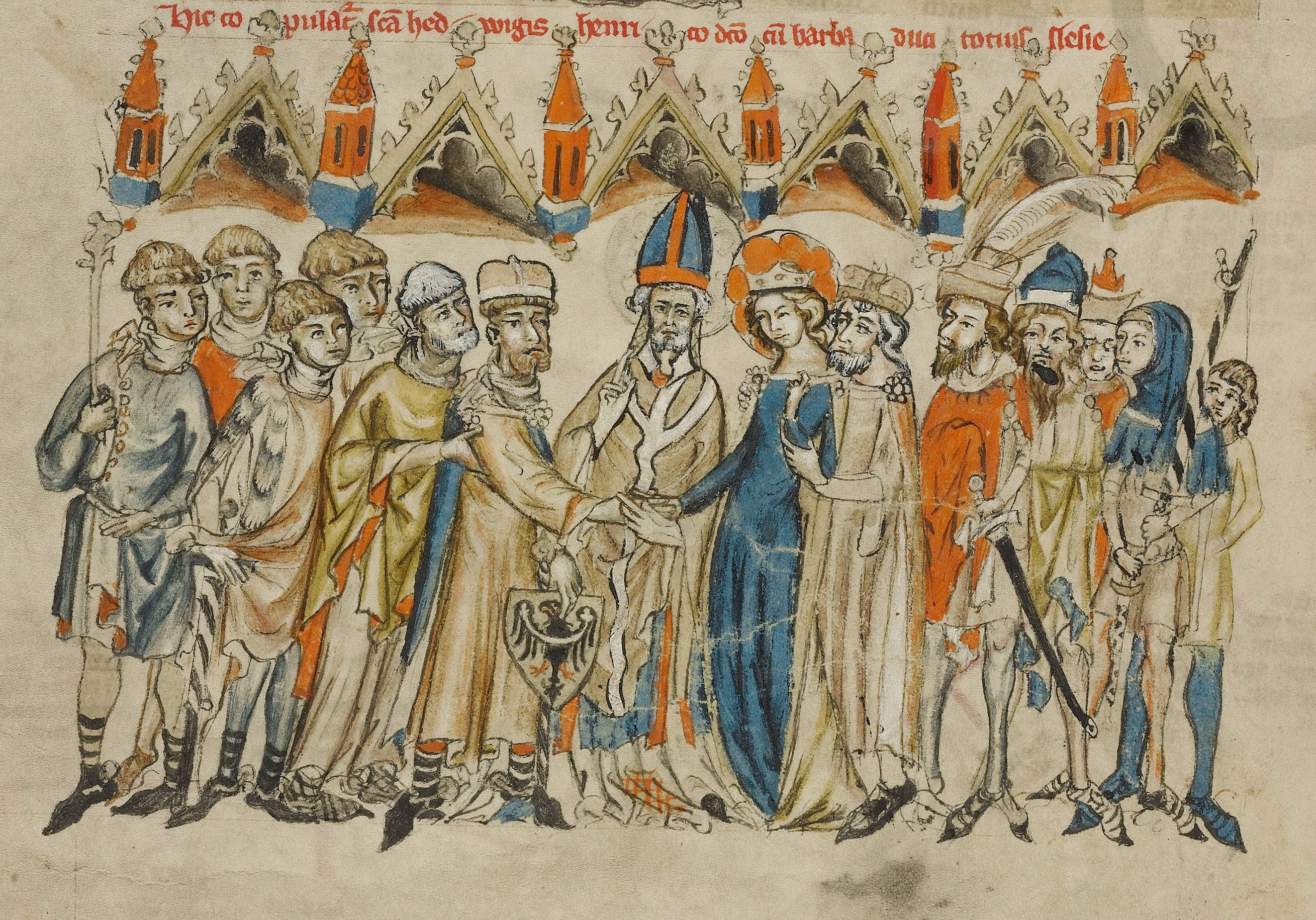 Henry I the Bearded marries Hedwig of Andechs. XIV century image